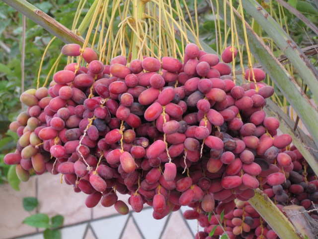 bunch of palm dates-a shot taken from Rashidiya, Dubai,UAE on 30-june-2011